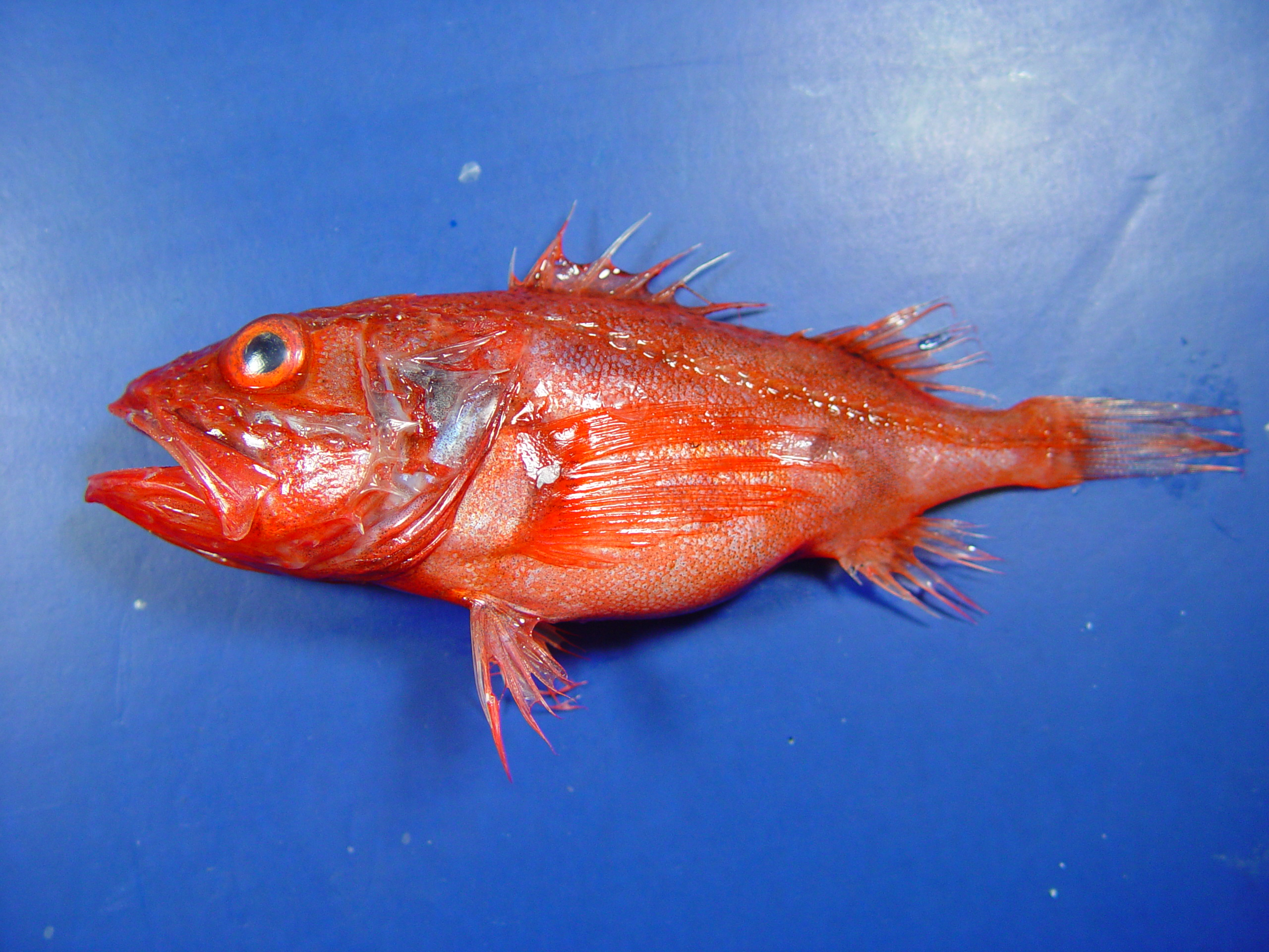 Deepwater scorpionfish (Setarches guentheri) from the Gulf of Mexico